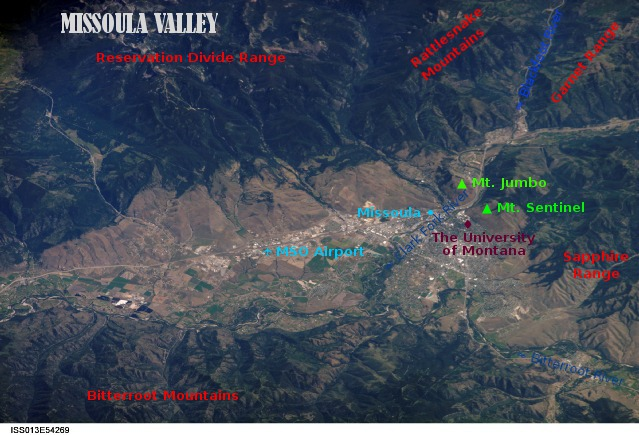 Astronaut Photography of Earth - Display Record ISS013-E-54269 "Missoula Valley"